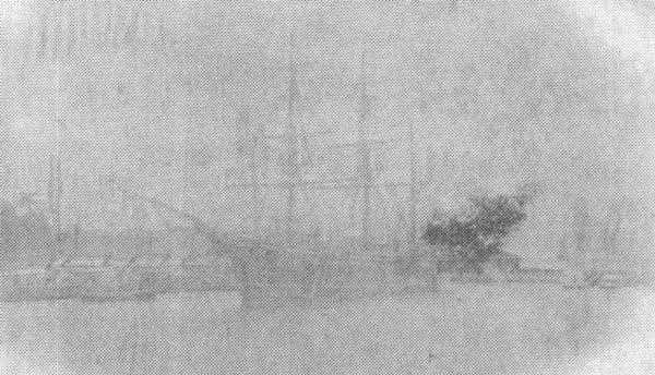 CHOBIN, training ship of the Imperial Japanese Navy, at Tsukiji, Tokyo. ex-Shunpu-maru as tranport.